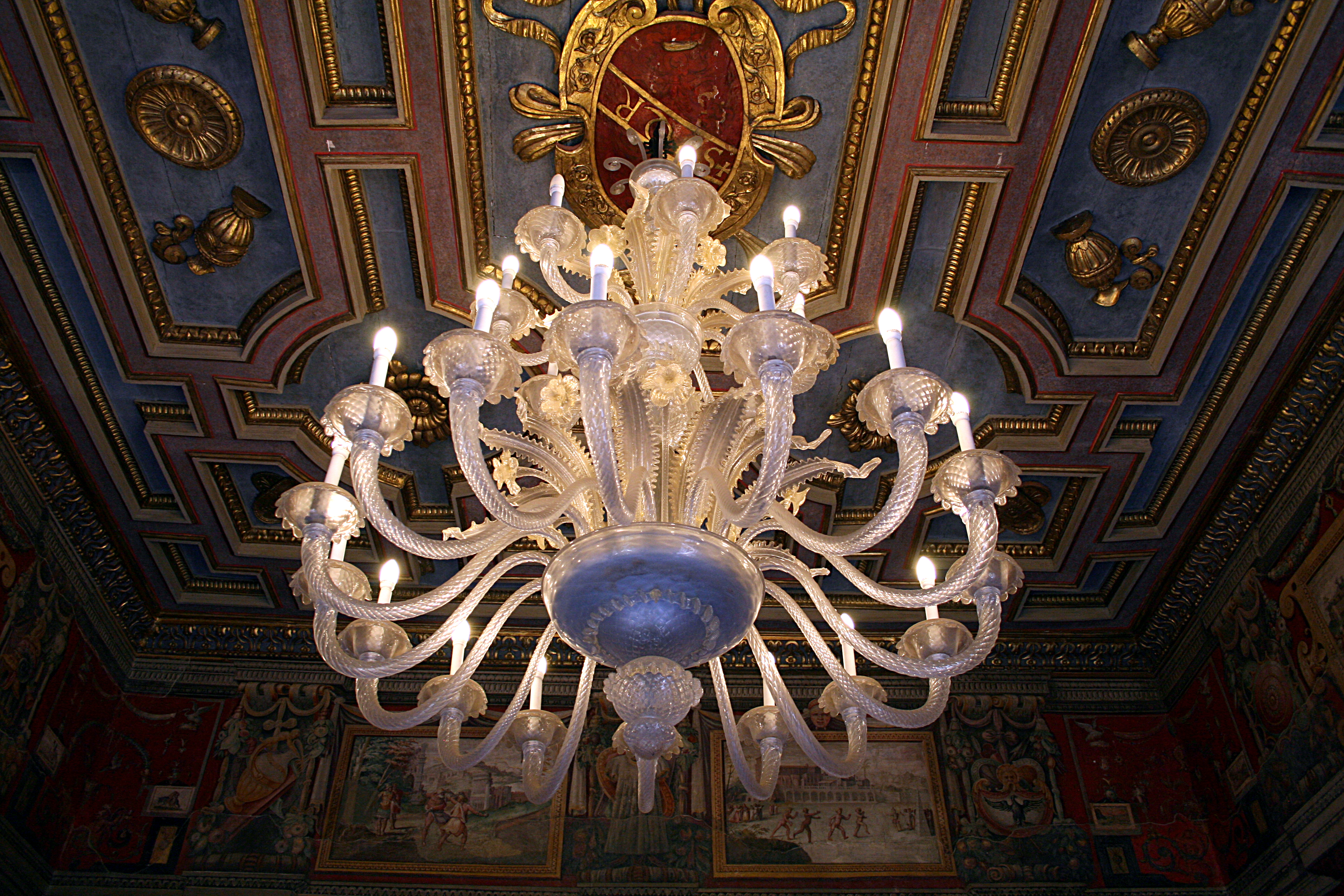 Crystal chandelier - Salla delle Oche - Palazzo dei Conservatori (Capitoline Museums) in Rome.